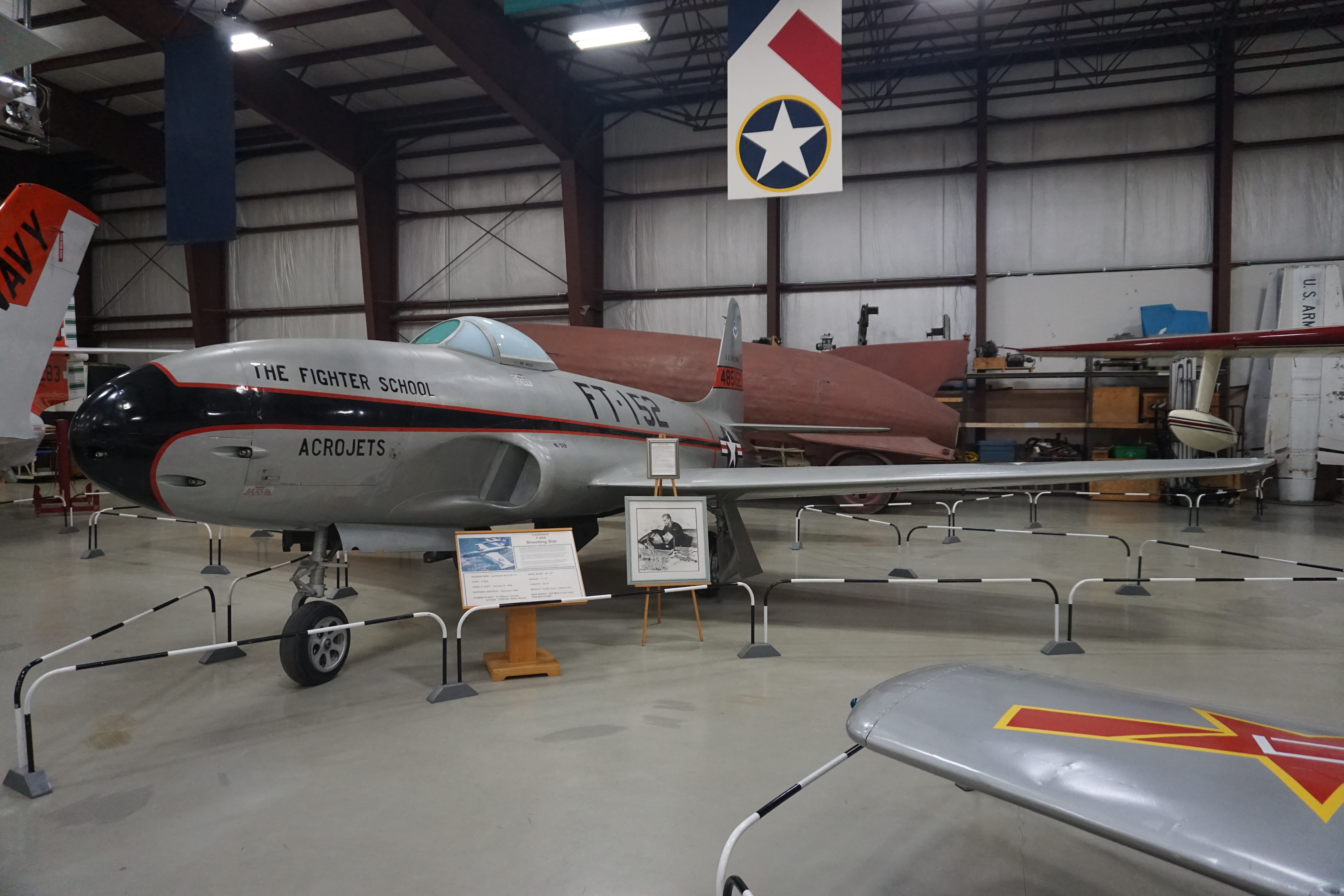 A Lockheed F-80A Shooting Star on display at the Air Zoo at Kalamazoo/Battle Creek International Airport in Portage, Michigan (United States).